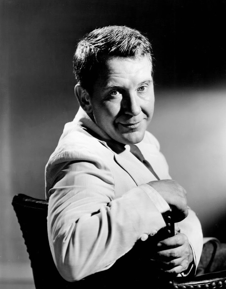 Publicity photo of Burgess Meredith from an appearance on the television program General Electric Theater.